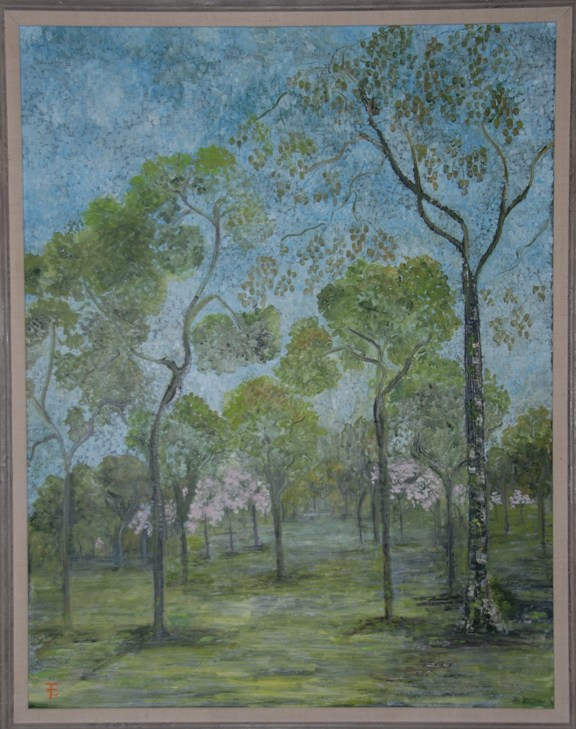 Photograph of painting owned by the uploader. Spring Grove, by Elizabeth Charleston.